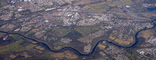 Blantyre and the River Clyde from the air